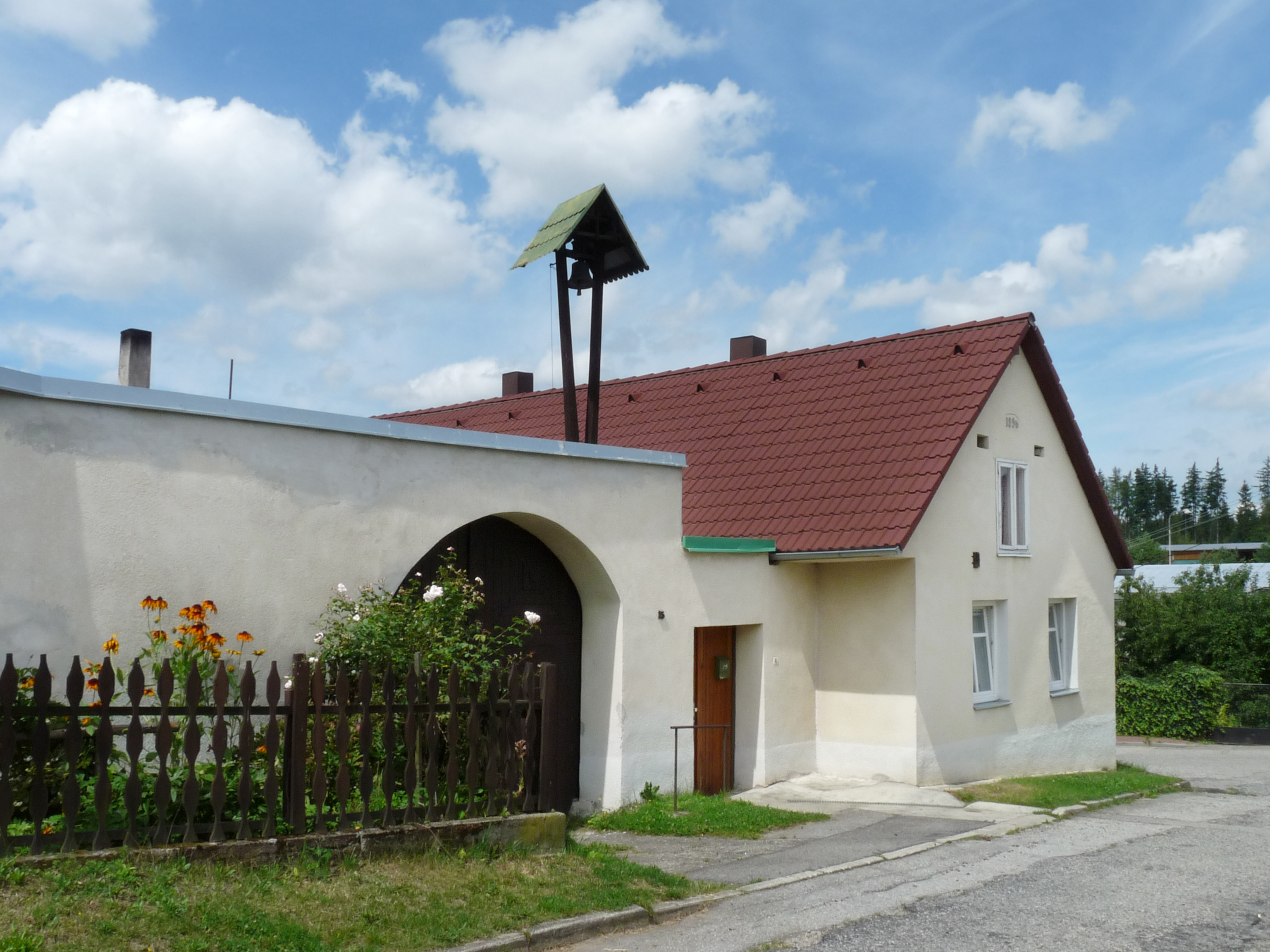 Cottage No 15 with a bell tower in Heřmaň, České Budějovice district, Czech Republic